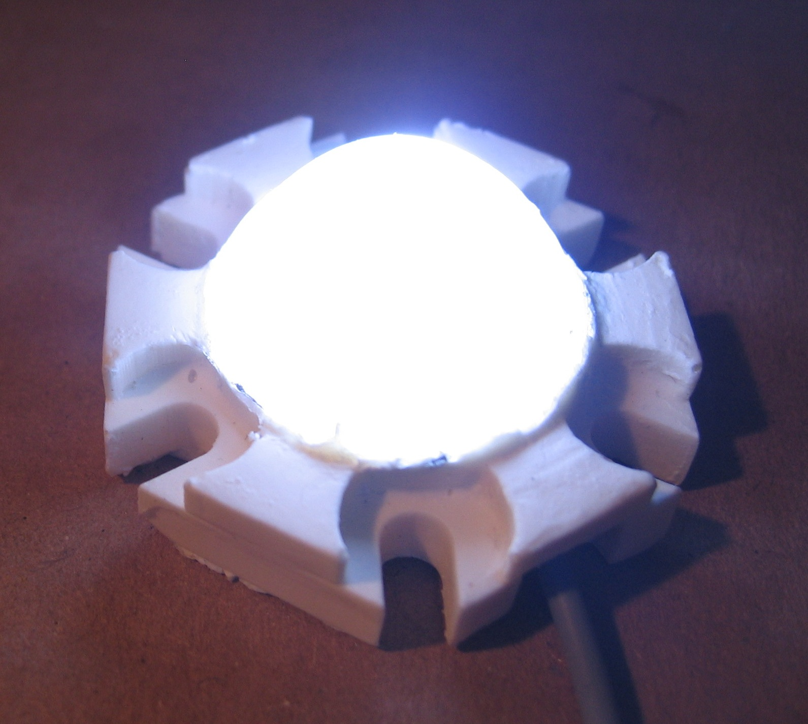 A white LED module as designed and manufactured by theLEDguru